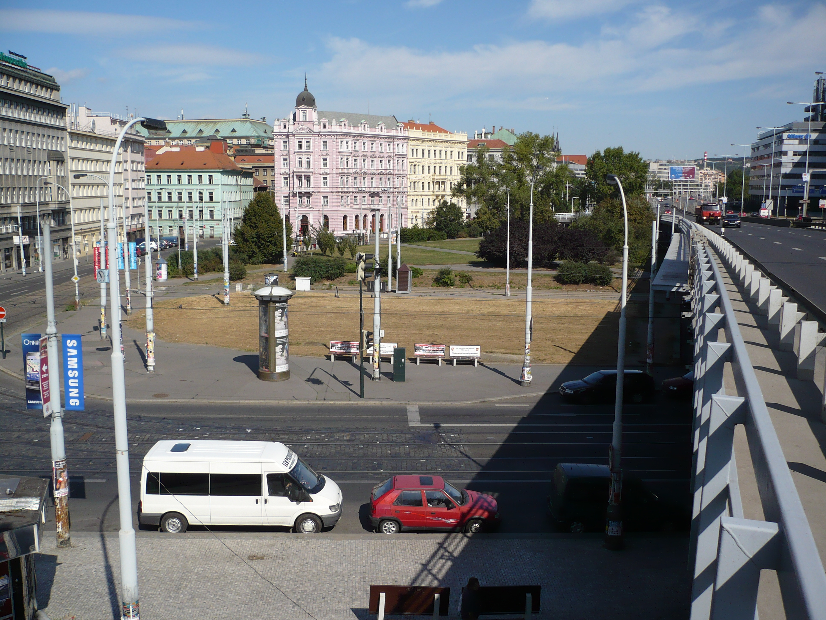 Park that replaced demolished building of Northwestern Railway Station in Prague